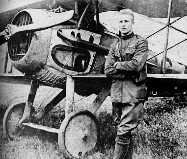 US fighter pilot Frank Luke from Photo was originally taken September 19, 1918.